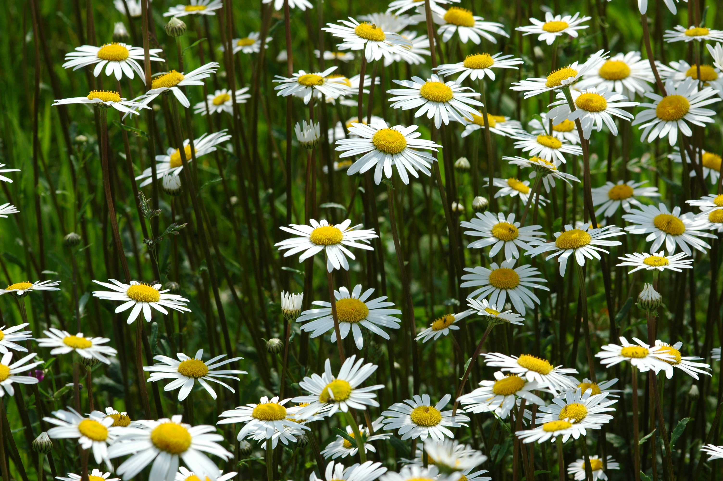 plant